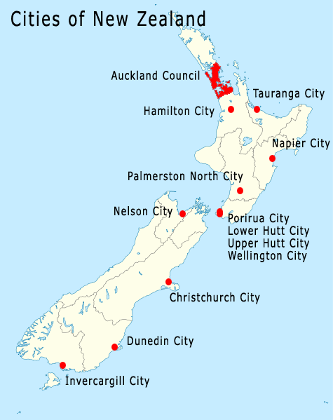 Cities of New Zealand; all cities which are a territorial authority and have got a city council